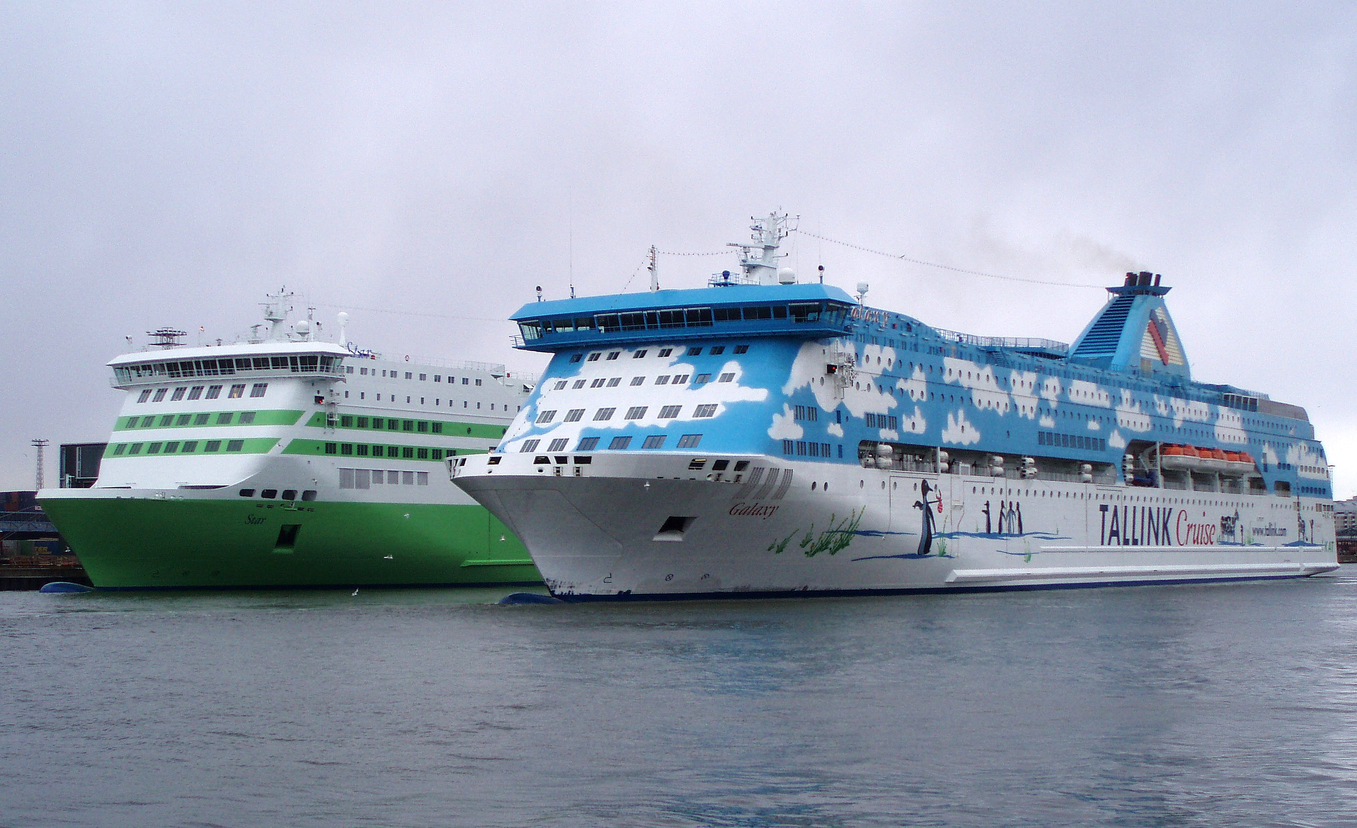 Tallink ships M/S Star and M/S Galaxy in Helsinki West Harbour, 19 April 2007. Picture taken an uploaded by Kalle Id. Star: IMO Number: 9364722 MMSI Number: 276672000 Callsign: ESCJ Length: 185 m Beam: 28 m Galaxy: IMO Number: 9333694 MMSI Number: 266301000 Callsign: SFZQ Length: 212 m Beam: 30 m